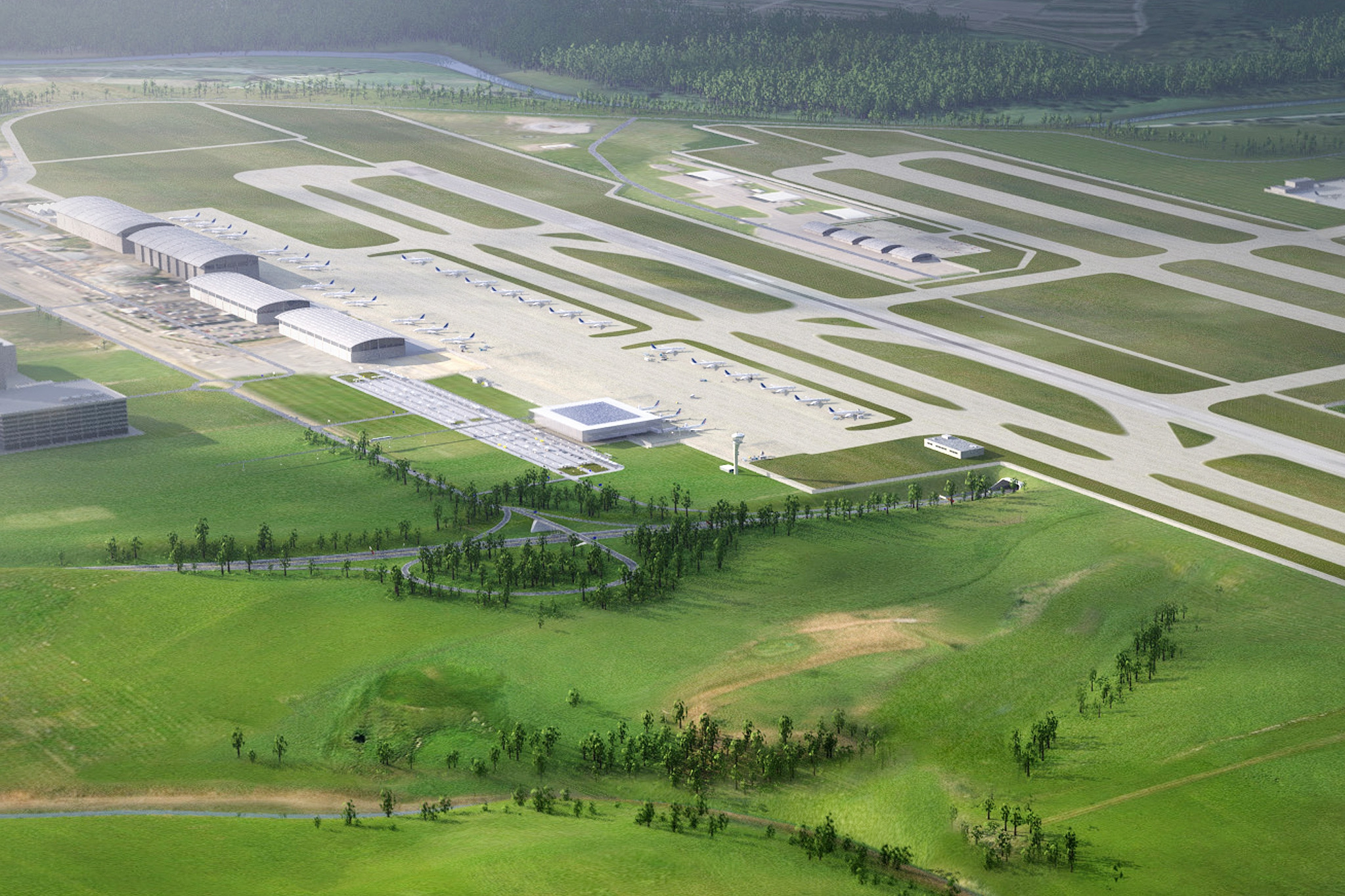 Victoria International Airport